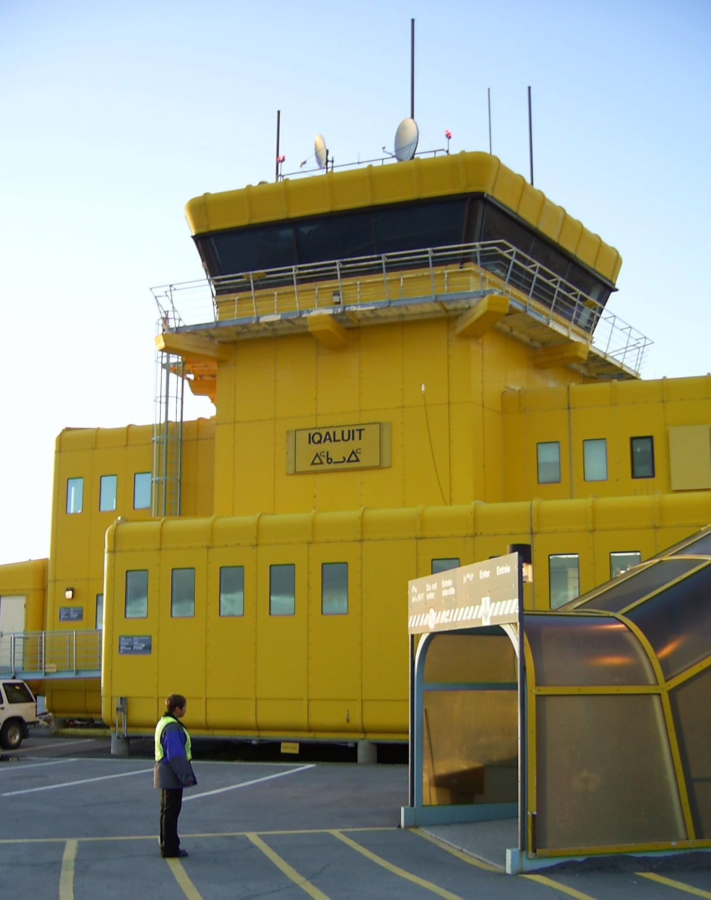 Close up of Iqaluit airport terminal